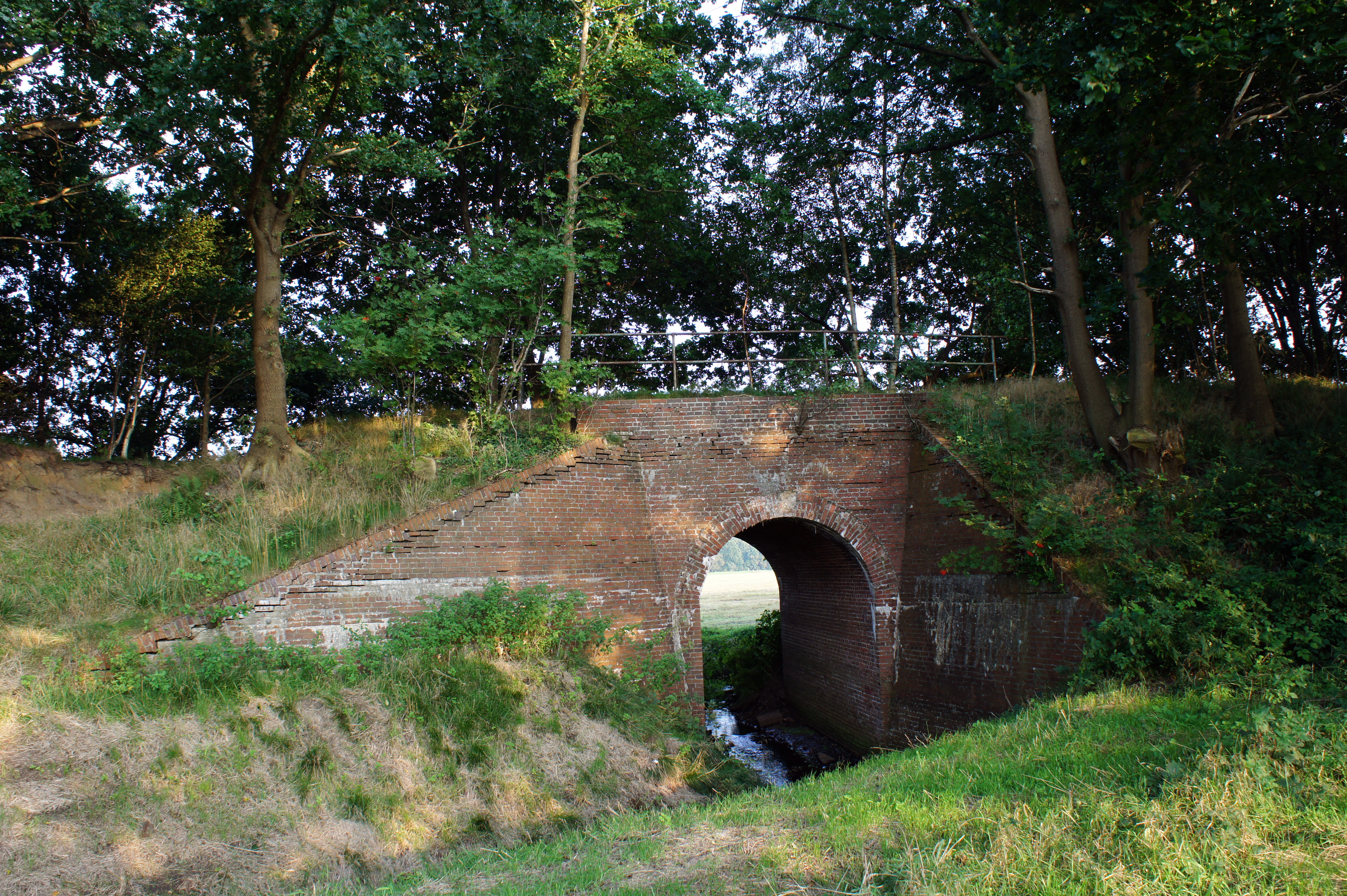 Bridge of the railway line Oldenburg - Brake over the Schanze